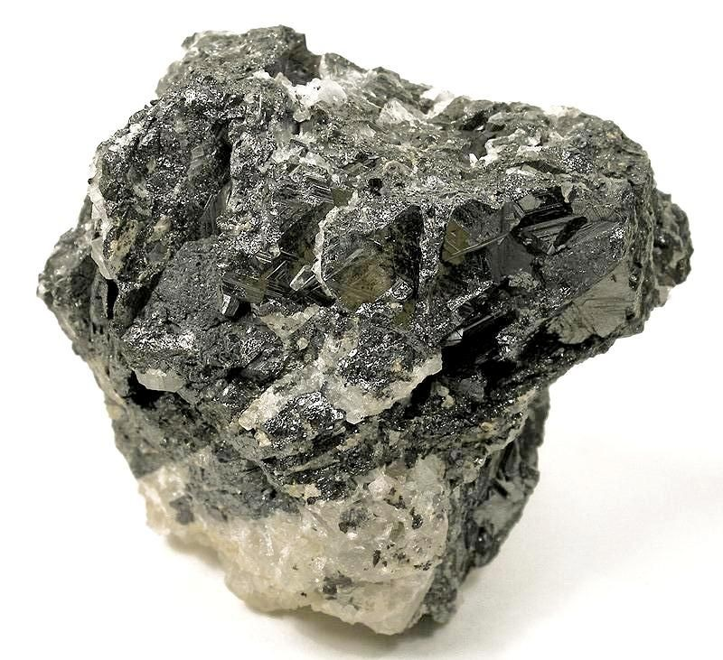 Geikielite Locality: Maxwell quarry, Chelsea, Les Collines-de-l'Outaouais RCM, Outaouais, Québec, Canada (Locality at ) Size: 7.5 x 6 x 4 cm. Geikielite is a rare magnesium titanium oxide, found usually in microcrystals or masses. It is the magnesium analogue of Ilmenite. Here we have a huge mass of geikielite about 3 inches in size with distinct big crystals over 1 cm in size embedded within it. It shows metallic lustre and some sharp twinning. This has been confirmed via communications with several collectors of rarities and the Royal Ontario Museum. Ex. Philadelphia Academy of Sciences Collection.